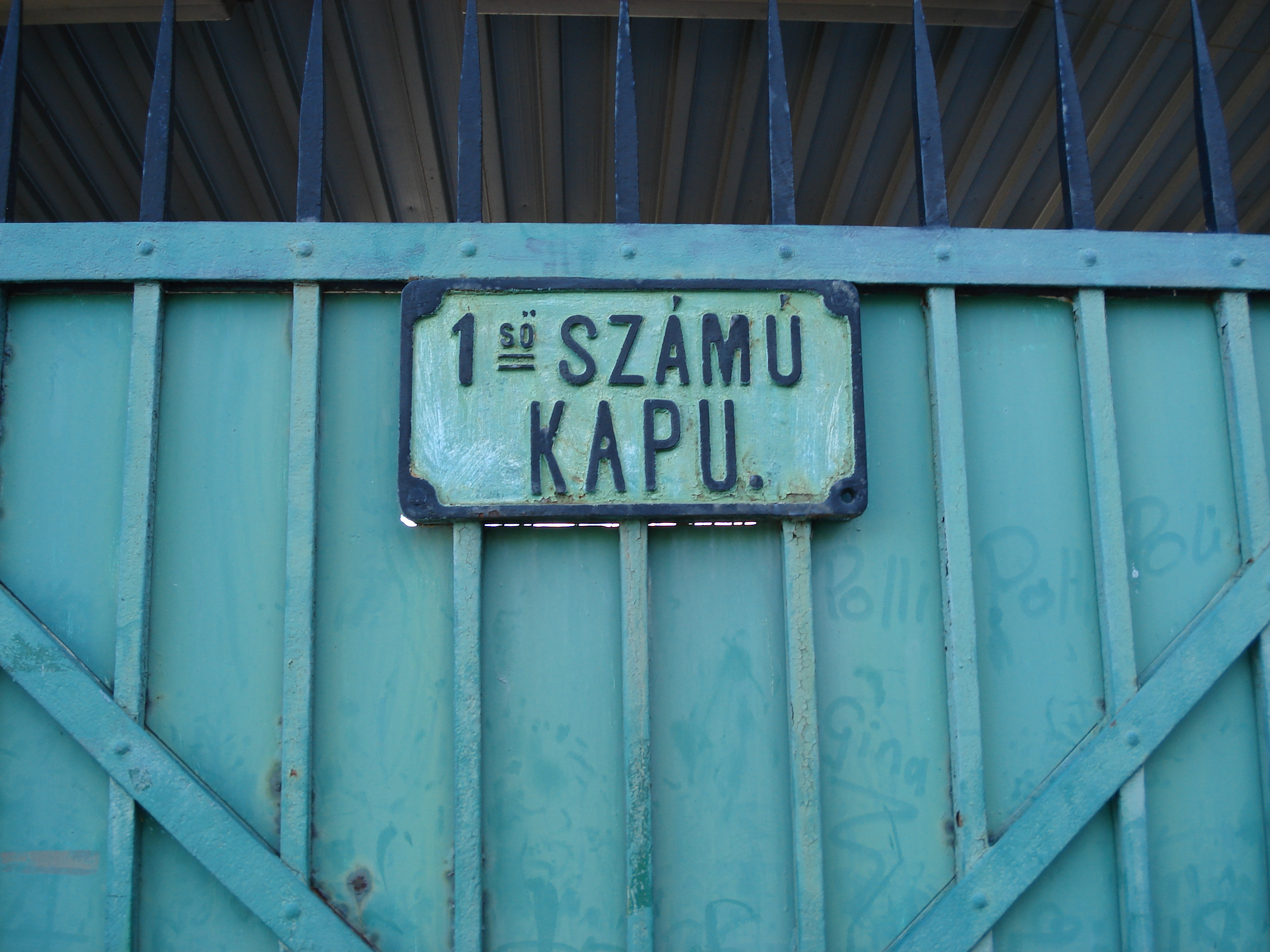 Gate No. 1, Diósgyőr Steelwork, Diósgyőr-Vasgyár, Miskolc, Hungary